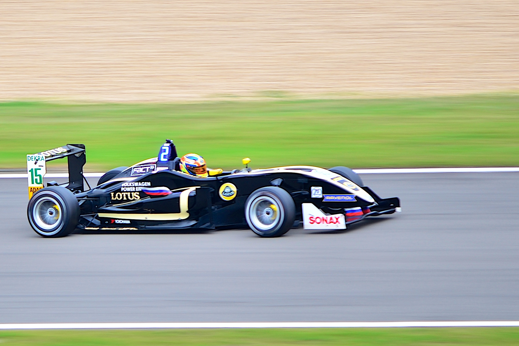 ATS Formula 3 Cup Racecar, Driver: Artem Markelov